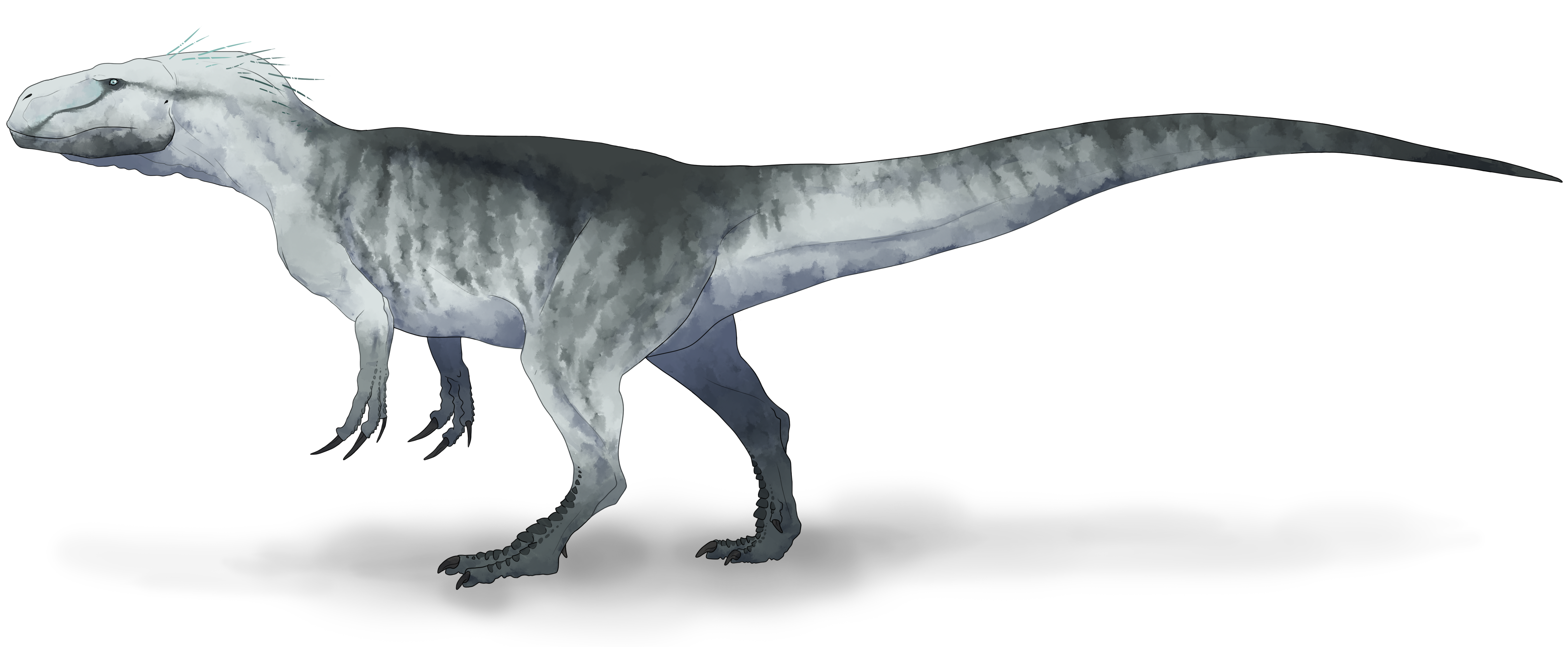 A restoration of Xuanhanosaurus qilixiaensis based on various skeletal diagrams